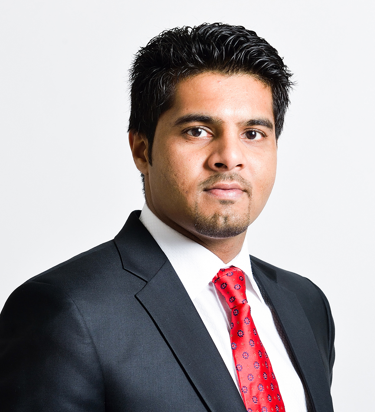 New profile picture